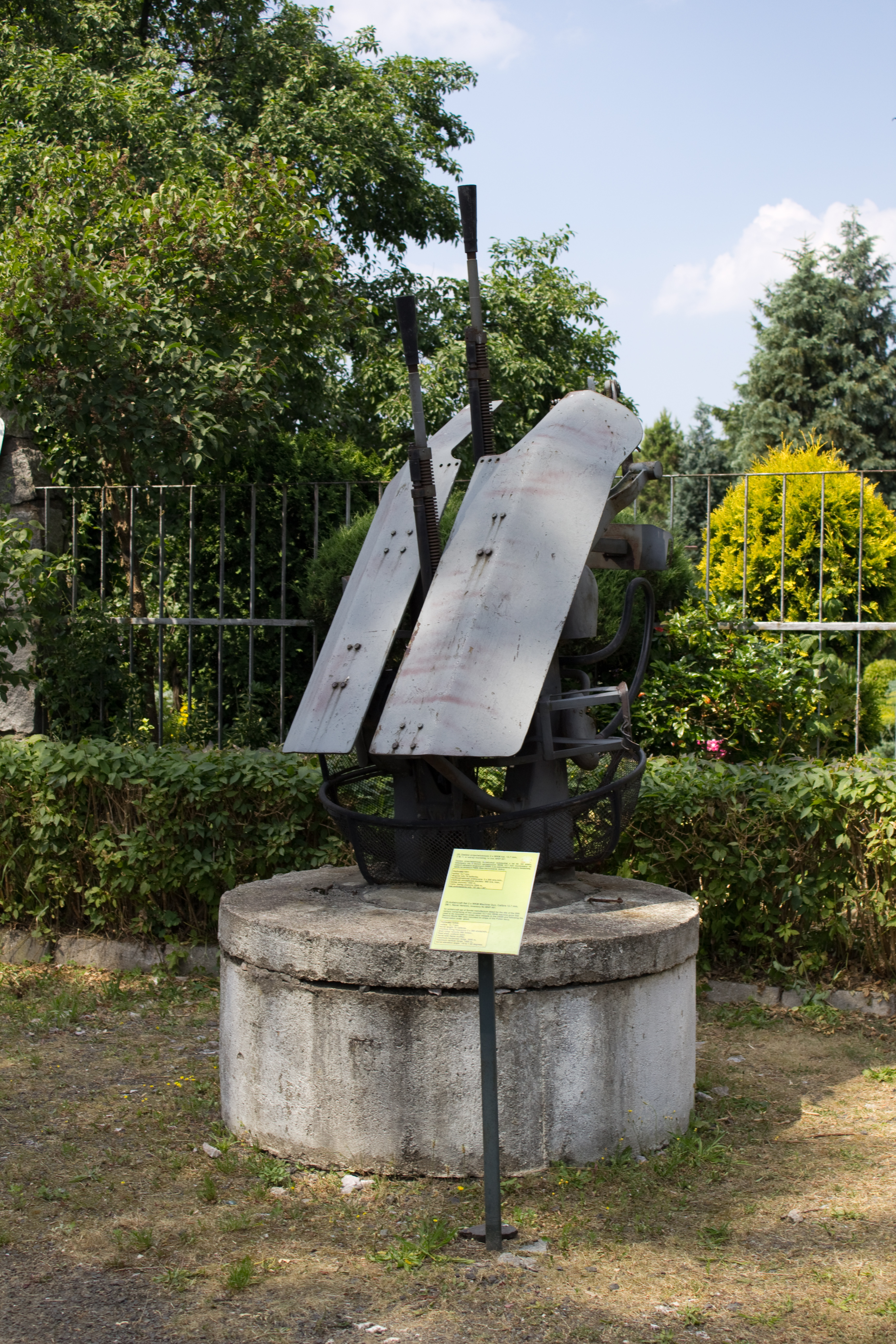 Heavy Armament Exhibition, Museum of Polish Army, Jelenia Góra, Lower Silesian Voivodeship